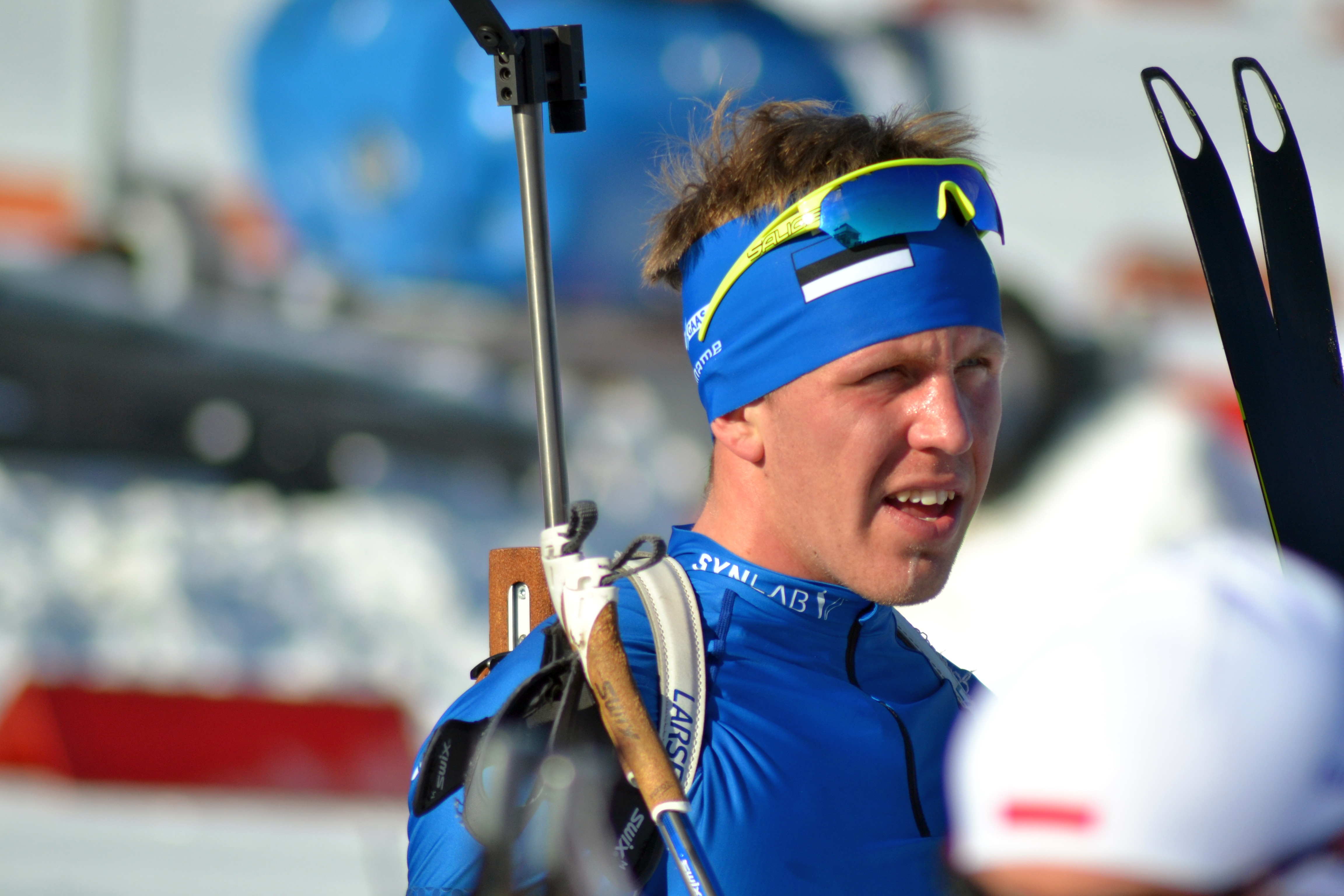 Open European Championships Biathlon 2017, Sprint Mens race.